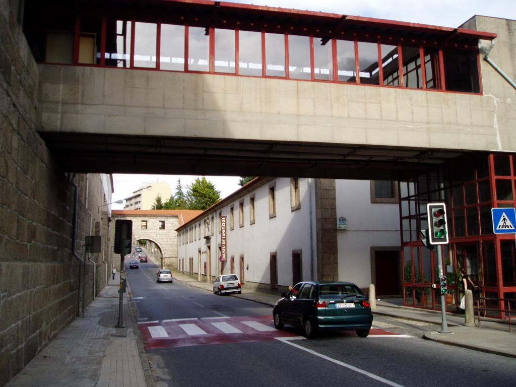 The main building of the University of Beira Interior is interconnected by two bridges. You can alse see the entrance of the Wool Museum.